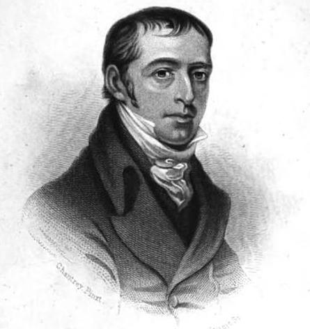 Image in the front matter of the book.